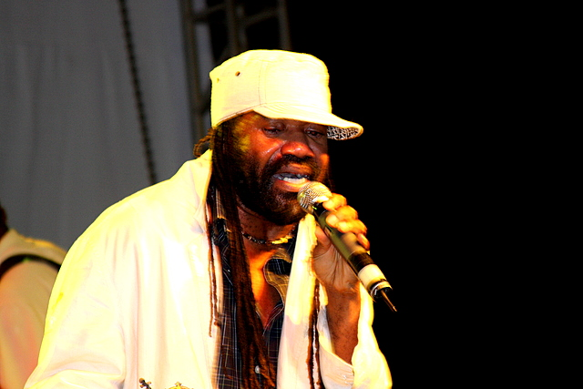 Photo of Tony Rebel, Jamaican reggae legend